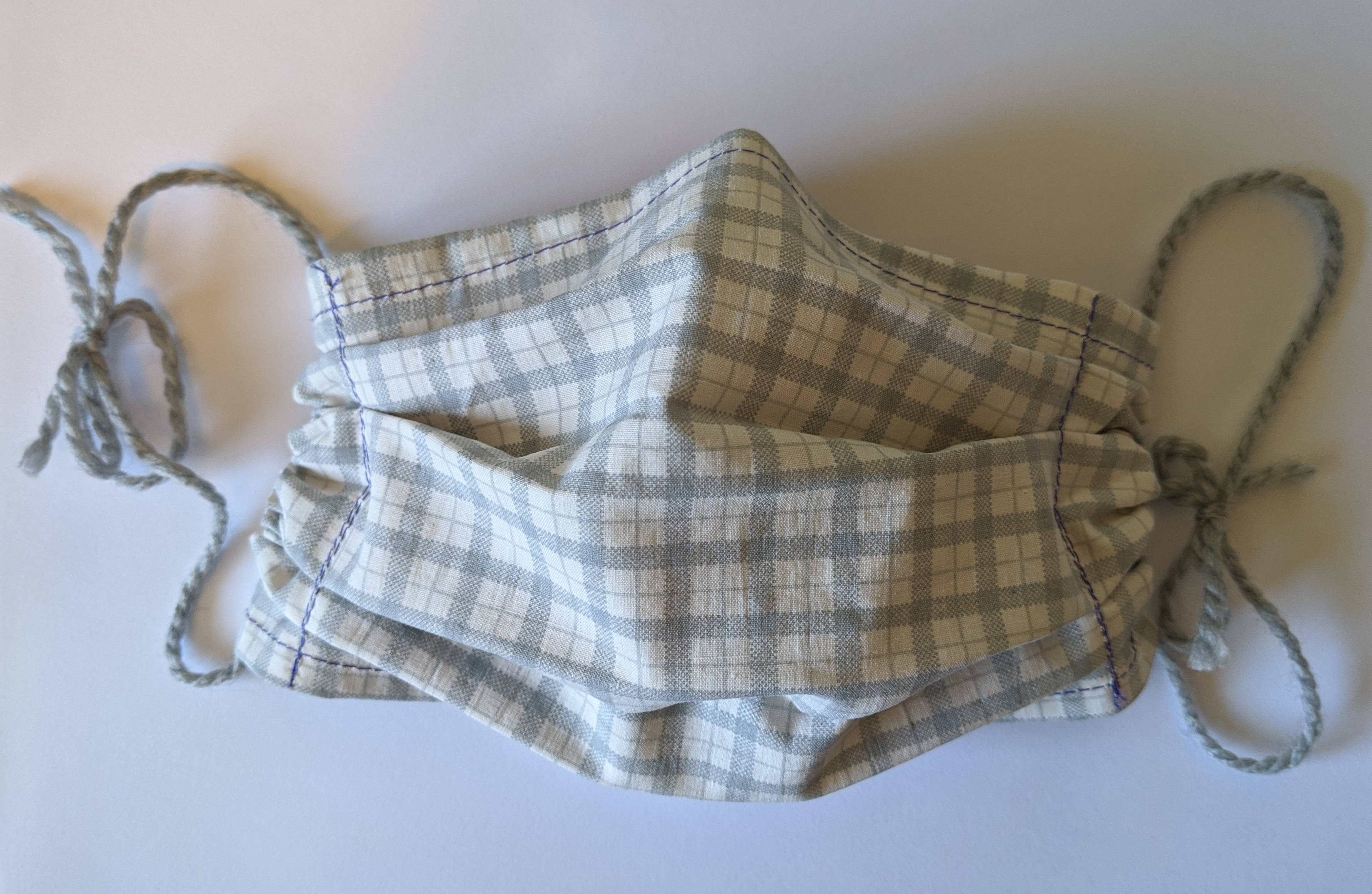 Homemade face mask